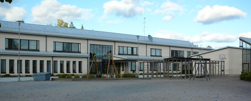 The comprehensive school of Jalavapuisto on the centre of Espoo.